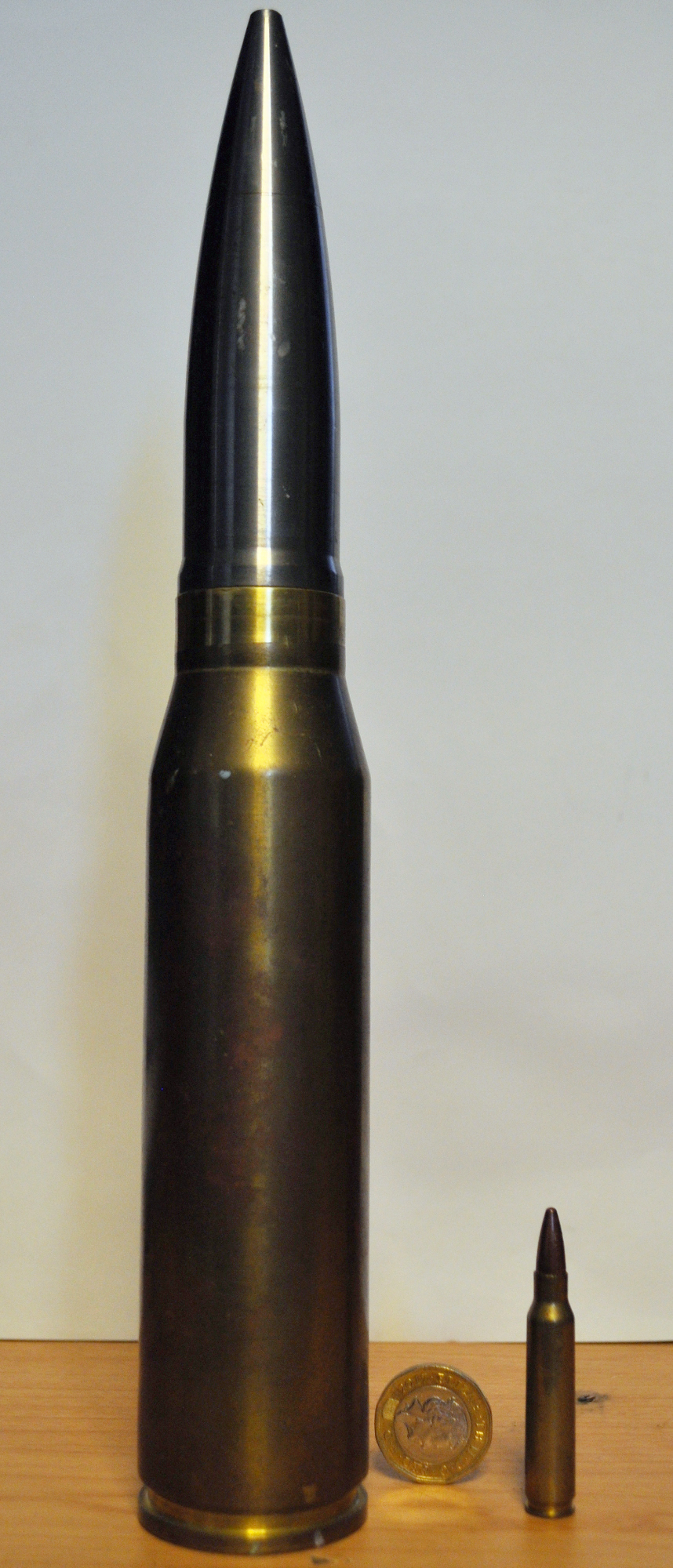 30mm RARDEN round vs 5.56x45mm NATO - size comparison